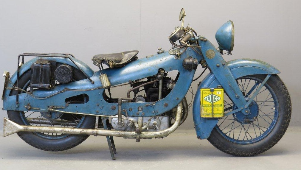 1928 500 cc New Motorcycle